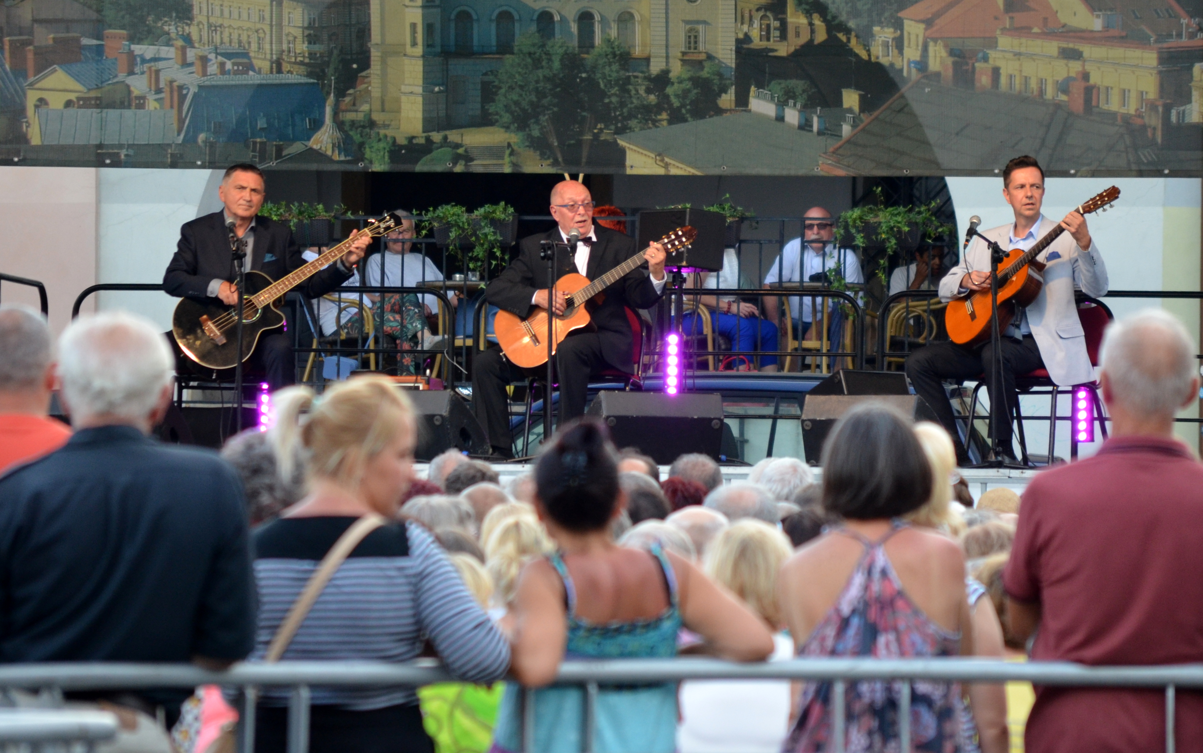 Alosza Awdiejew